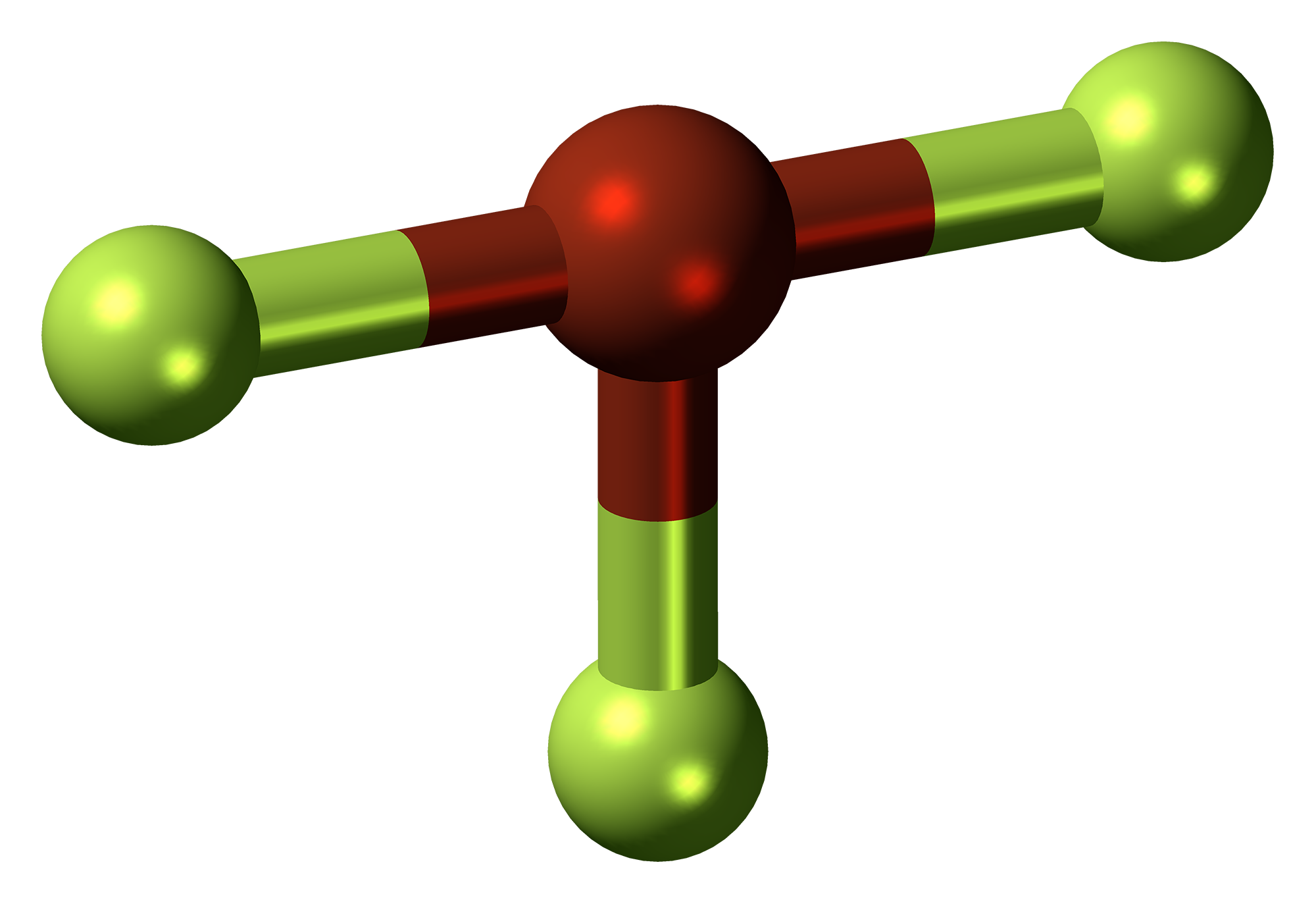 Ball-and-stick model of the bromine trifluoride molecule, an ionizing inorganic solvent. Color code: Fluorine, F: yellow-green Bromine, Br: red-brown